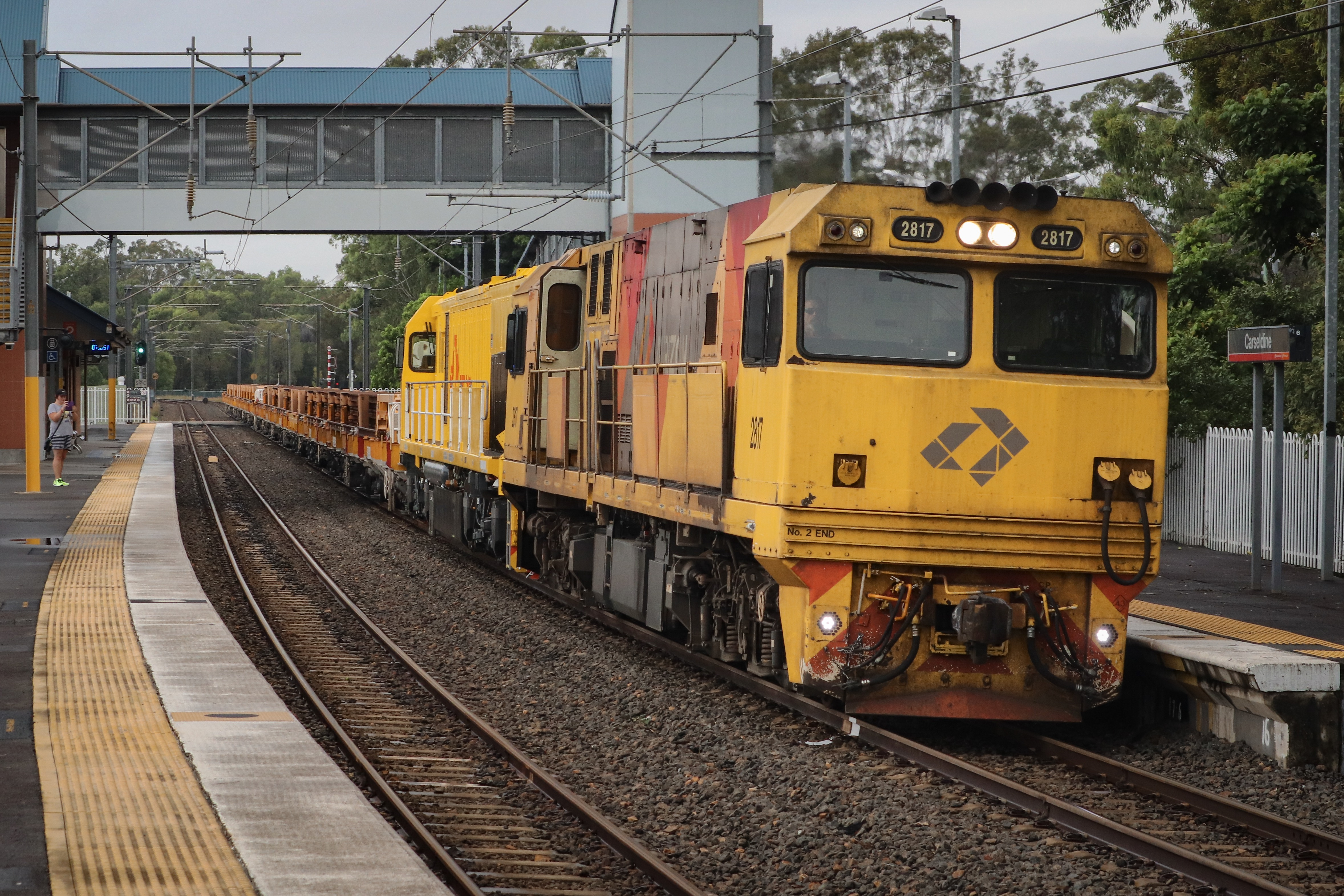 2817 Carseldine